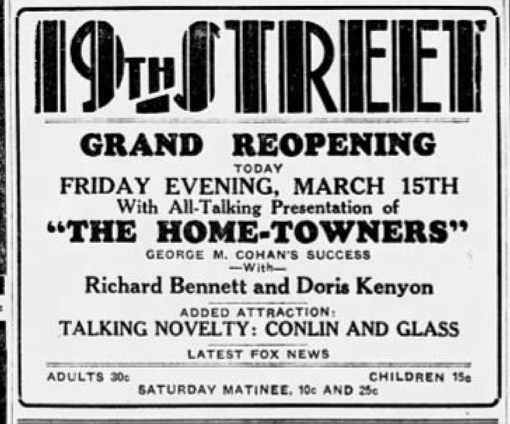 Nineteenth Street Theater advertisement for the American comedy film The Home Towners (1928) - 15 Mar. 1929 Morning Call, Allentown PA